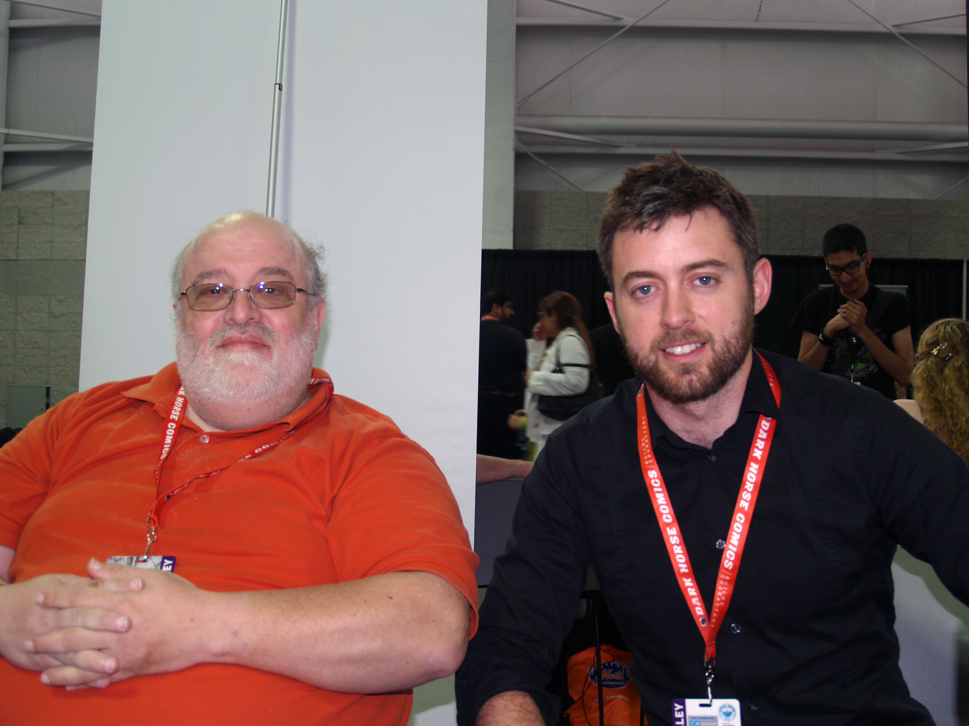 Comics writer Peter David and comics artist Will Sliney, the 2014 creative team on Spider-Man 2099, on Sunday, June 15, 2014, Day 2 of Special Edition NYC, a comic book convention at the Jacob K. Javits Convention Center in Manhattan. This photo was created by Luigi Novi. It is not in the public domain, and use of this file outside of the licensing terms is a copyright violation.